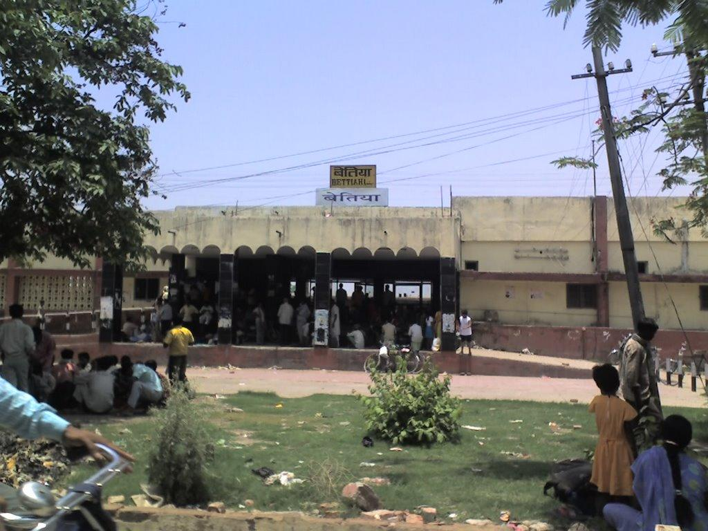 Bettiah Station Front View of Bettiah Railway Station